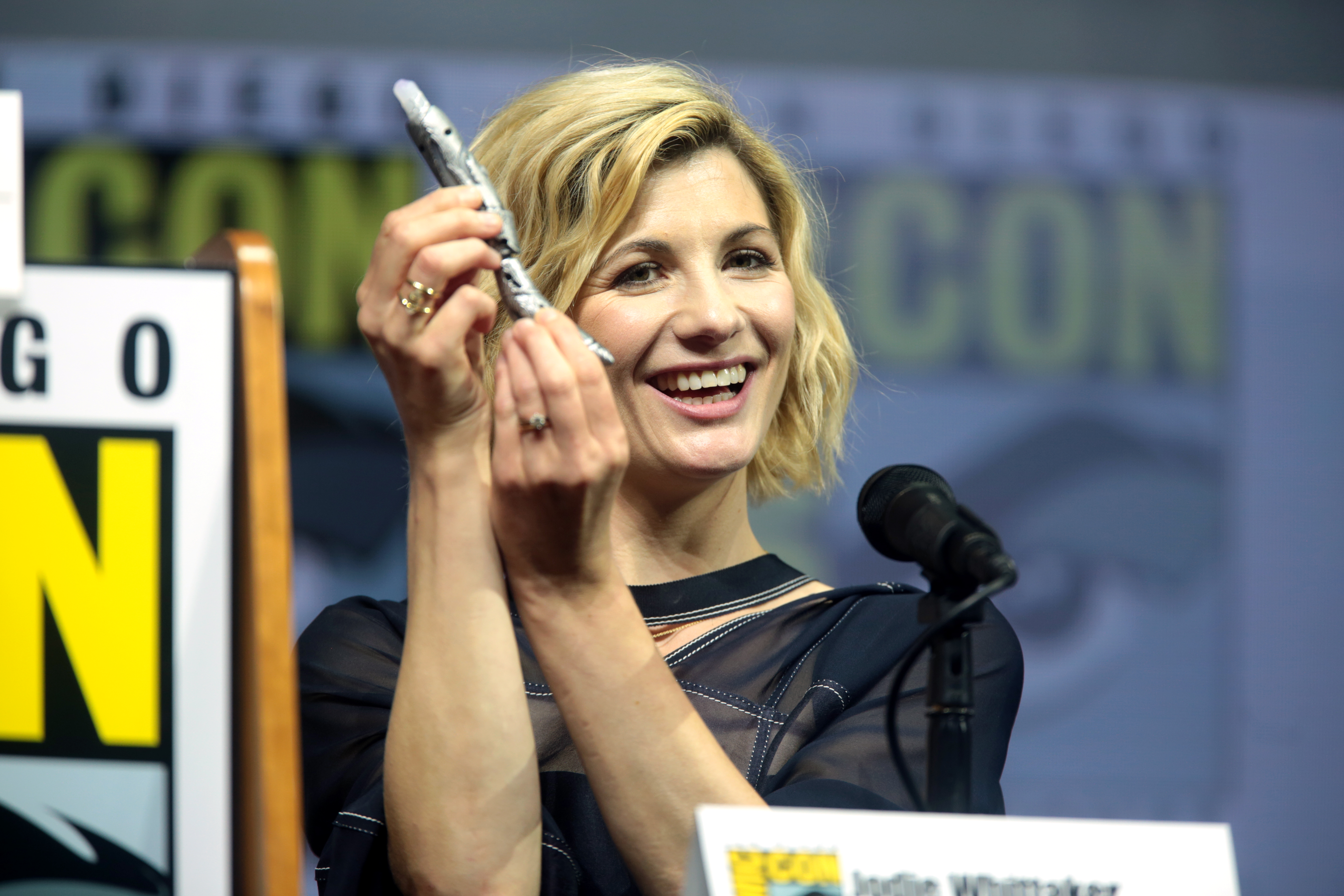 Jodie Whittaker speaking at the 2018 San Diego Comic Con International, for "Doctor Who", at the San Diego Convention Center in San Diego, California.